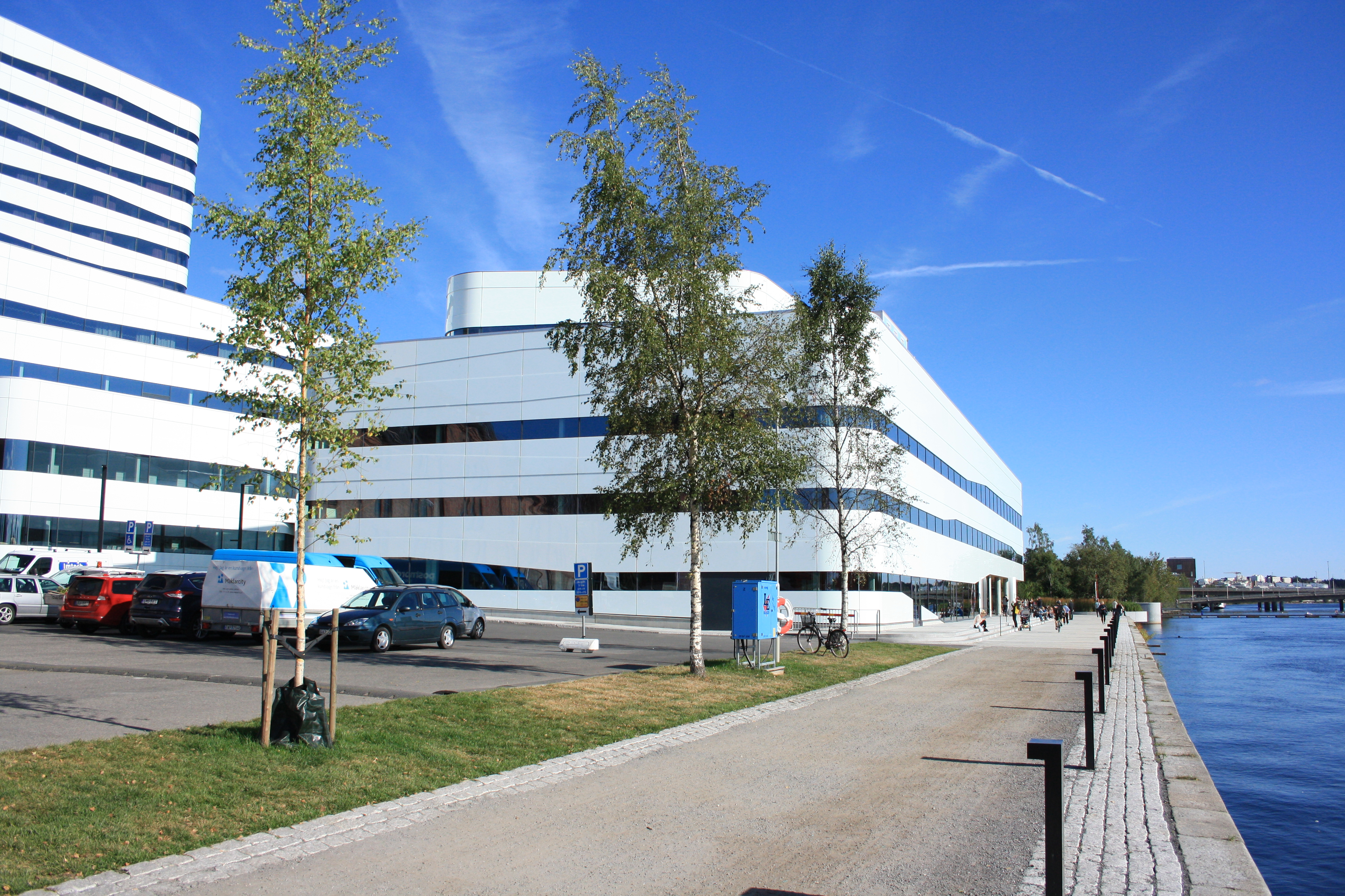 the cultural center Väven by the Ume River.